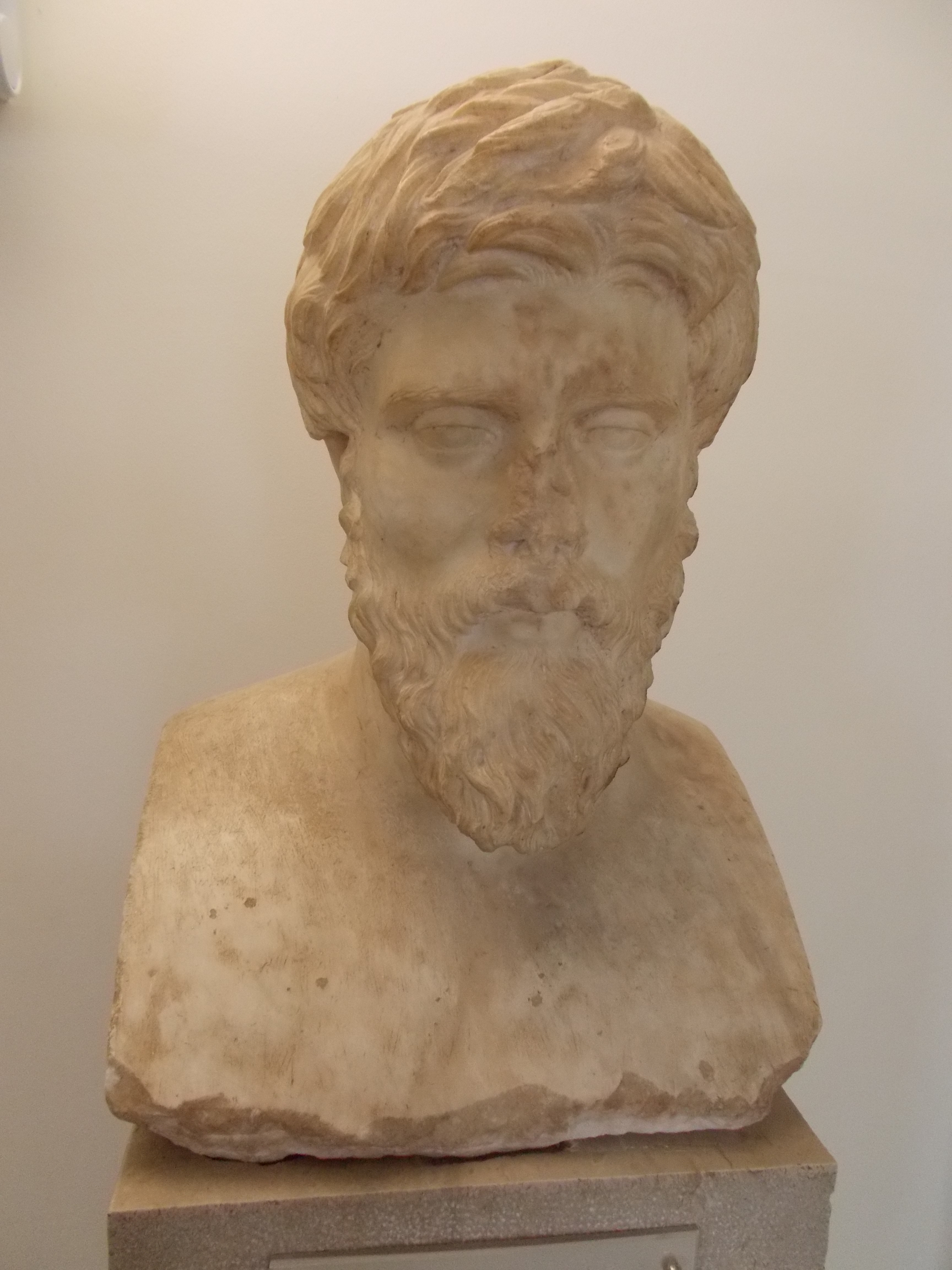 Bust believed to represent the Greek historian, biographer and essayist Plutarch. It is carved in Parian marble, dated to the 2nd or 3rd century AD. It is displayed in room XIV of the Archaeological Museum of Delphi, next to a herm with an engraved inscription that reads: ΔΕΛΦΟΙ ΧΑΙΡΩΝΕΥΣΙ ΝΟΜΟΥ ΠΛΟΥΤΑΡΧΟΝ ΕΘΗΚΑΝ ΤΟΙΣ ΑΜΦΙΚΤΙΟΝΩΝ ΔΕΛΦΟΙΣ ΠΕΙΘΟΜΕΝΟΙ (This votive with the bust of Plutarch was set up by the people of Delphi and the citizens of Chearonea in honour of the great author and priest of Apollo). The bust and the herm were both uncovered near the southeast corner of the Temple of Apollo at Delphi. A present day copy with the inscription ΠΛΟΥΤΑΡΧΟΣ is located at Chaeronia, Plutarch's home town. It has been suggested that it could represent another philosopher of the Neoplatonist school.